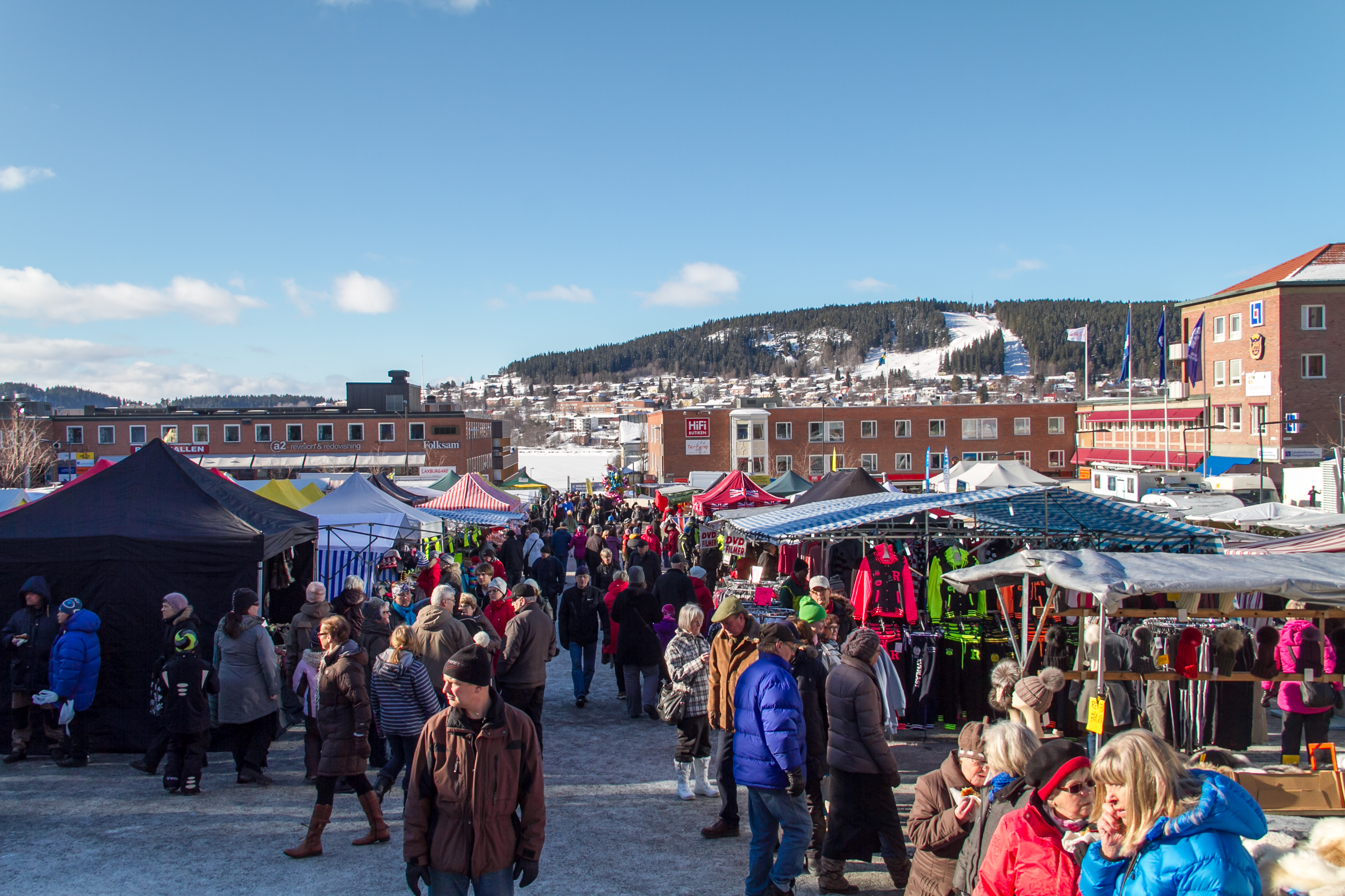 Gregoriemarknaden in Östersund, Jämtland, Sweden.